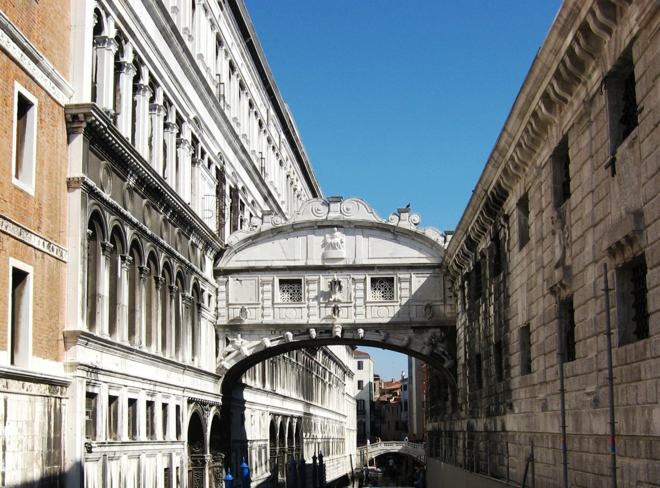 Bridge of sighs in Venice